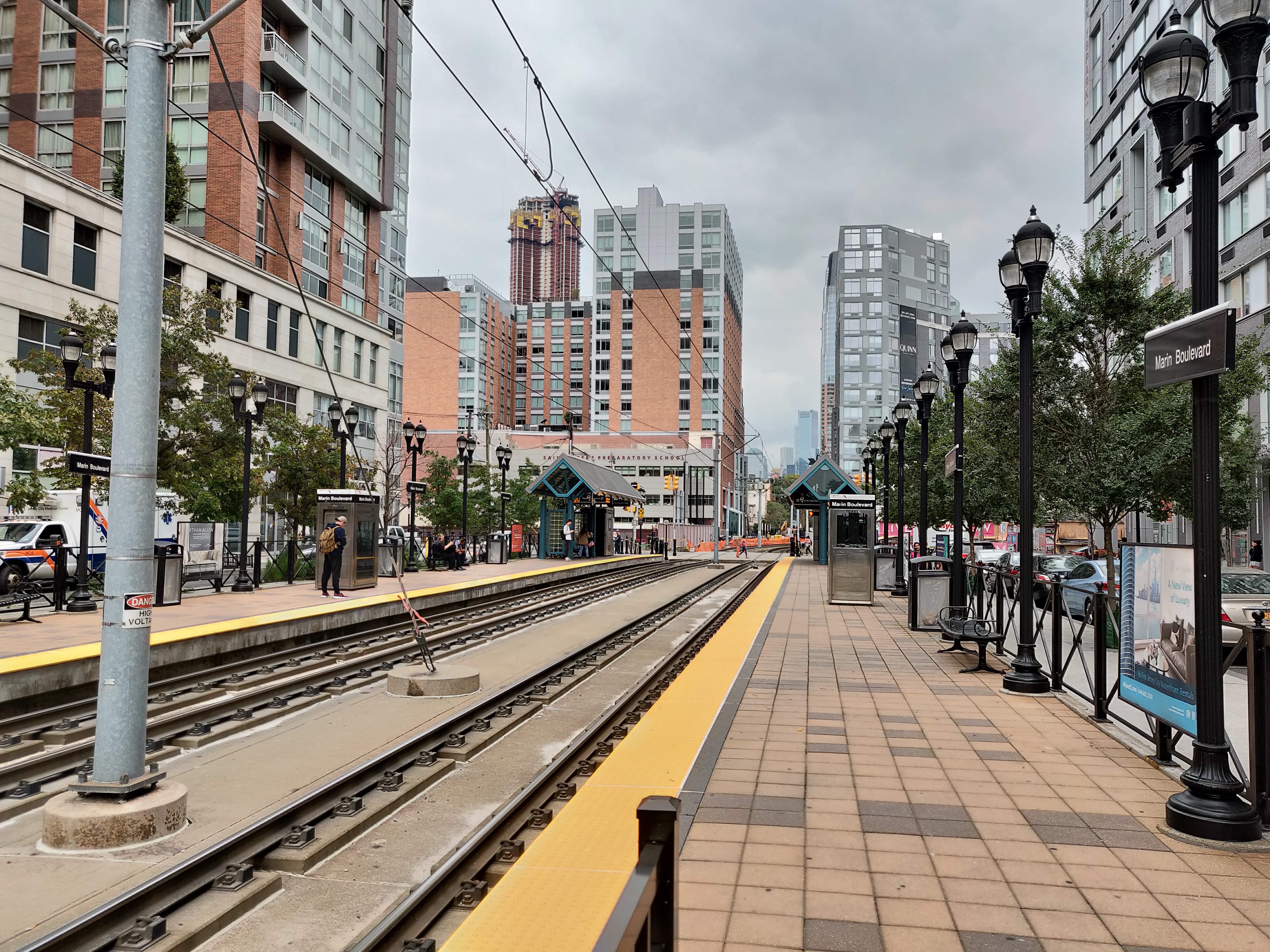 The "Marin Boulevard" Hudson-Bergen Light Rail Station in Jersey City, New Jersey, USA. The photographer is facing east on the northbound platform.